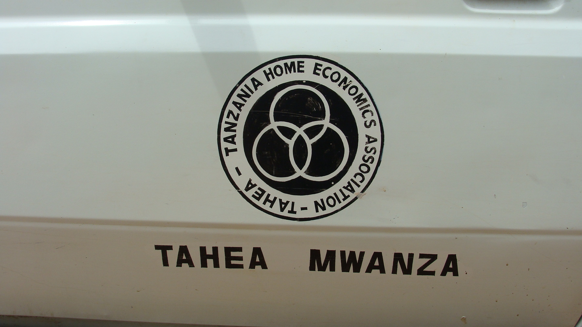 Logo of TAHEA on a car